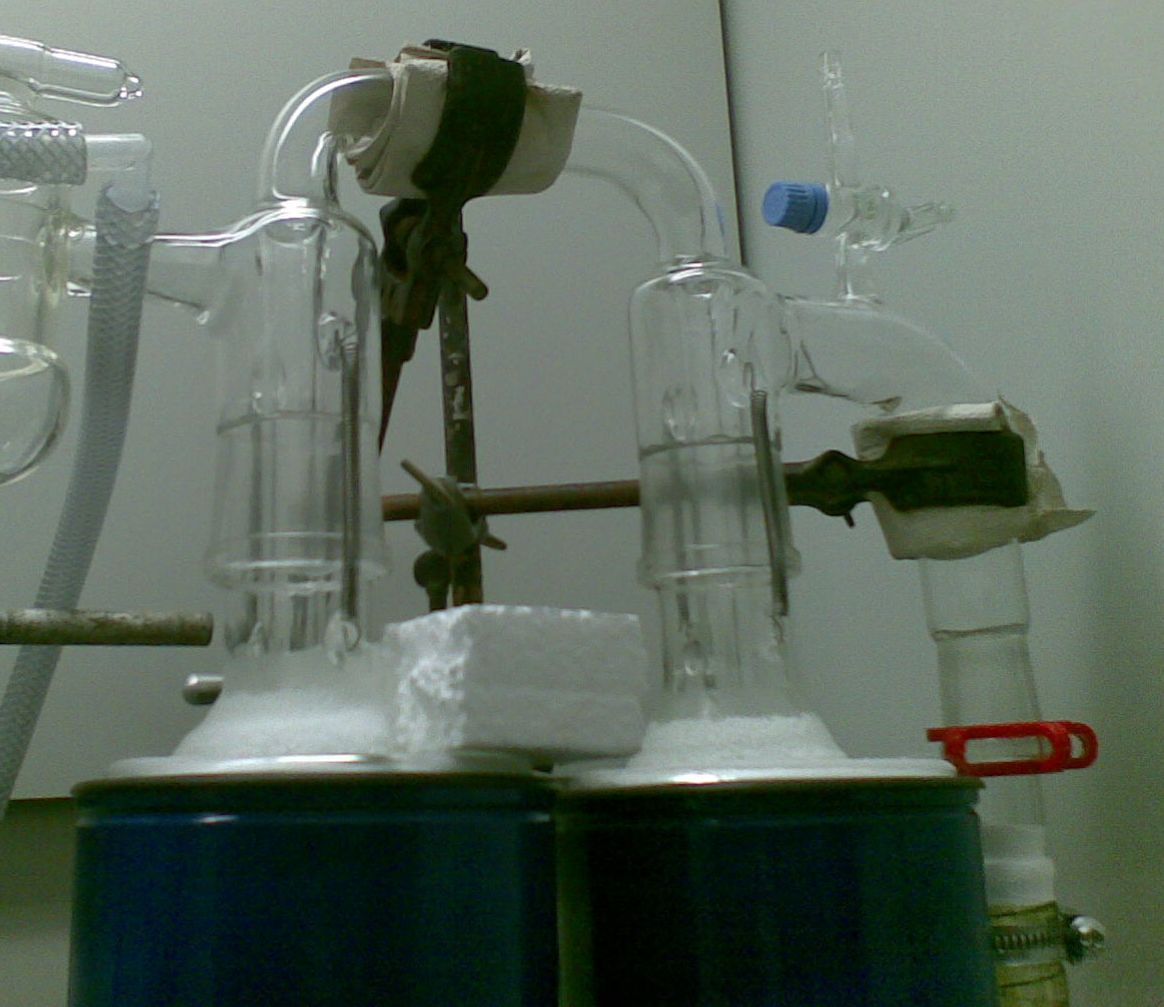 cold traps connected to a Schlenk line and used to prevent vapors from contaminating a rotary vane pump.